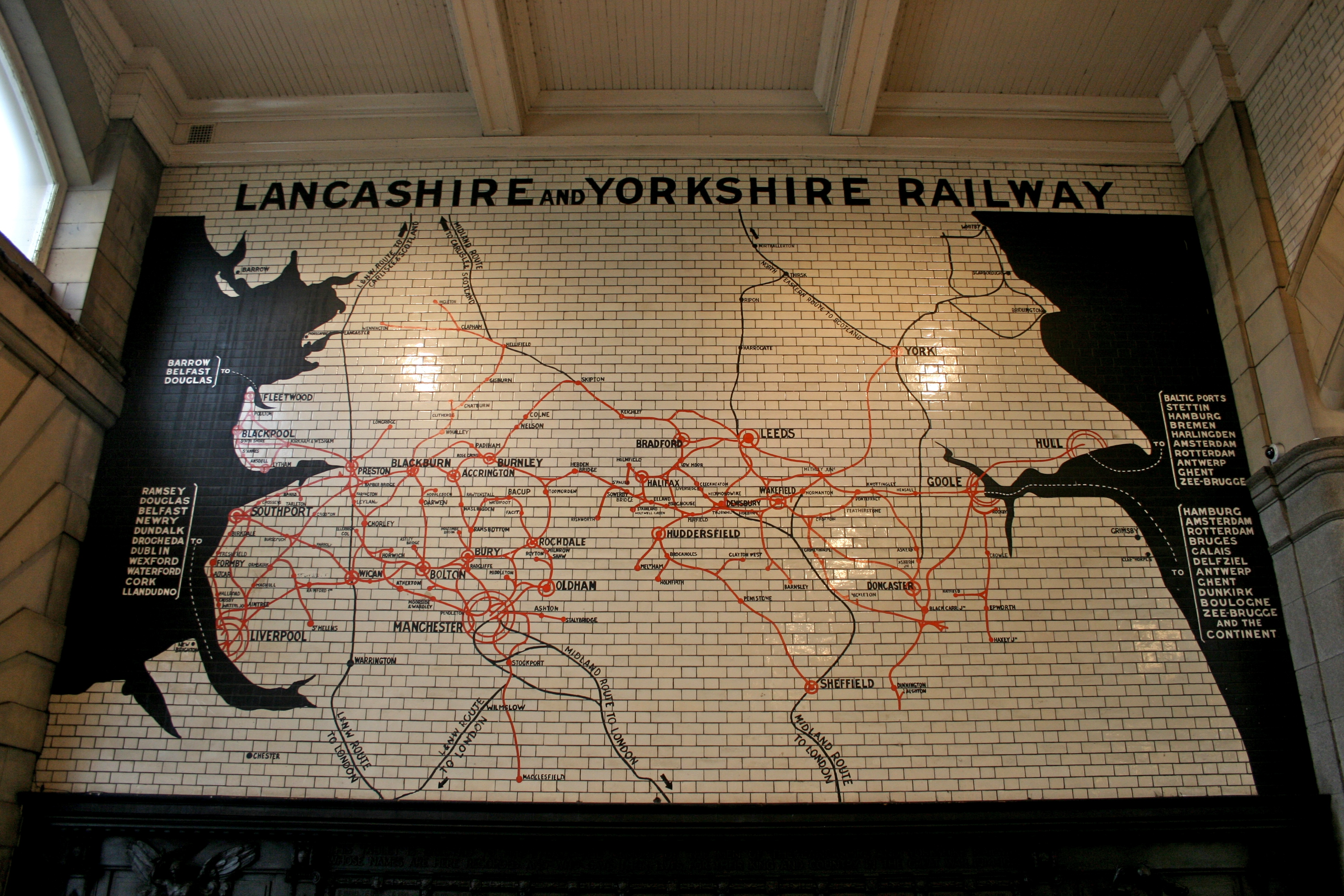 A map of the former Lancashire and Yorkshire Railway on a wall of Manchester Victoria Station